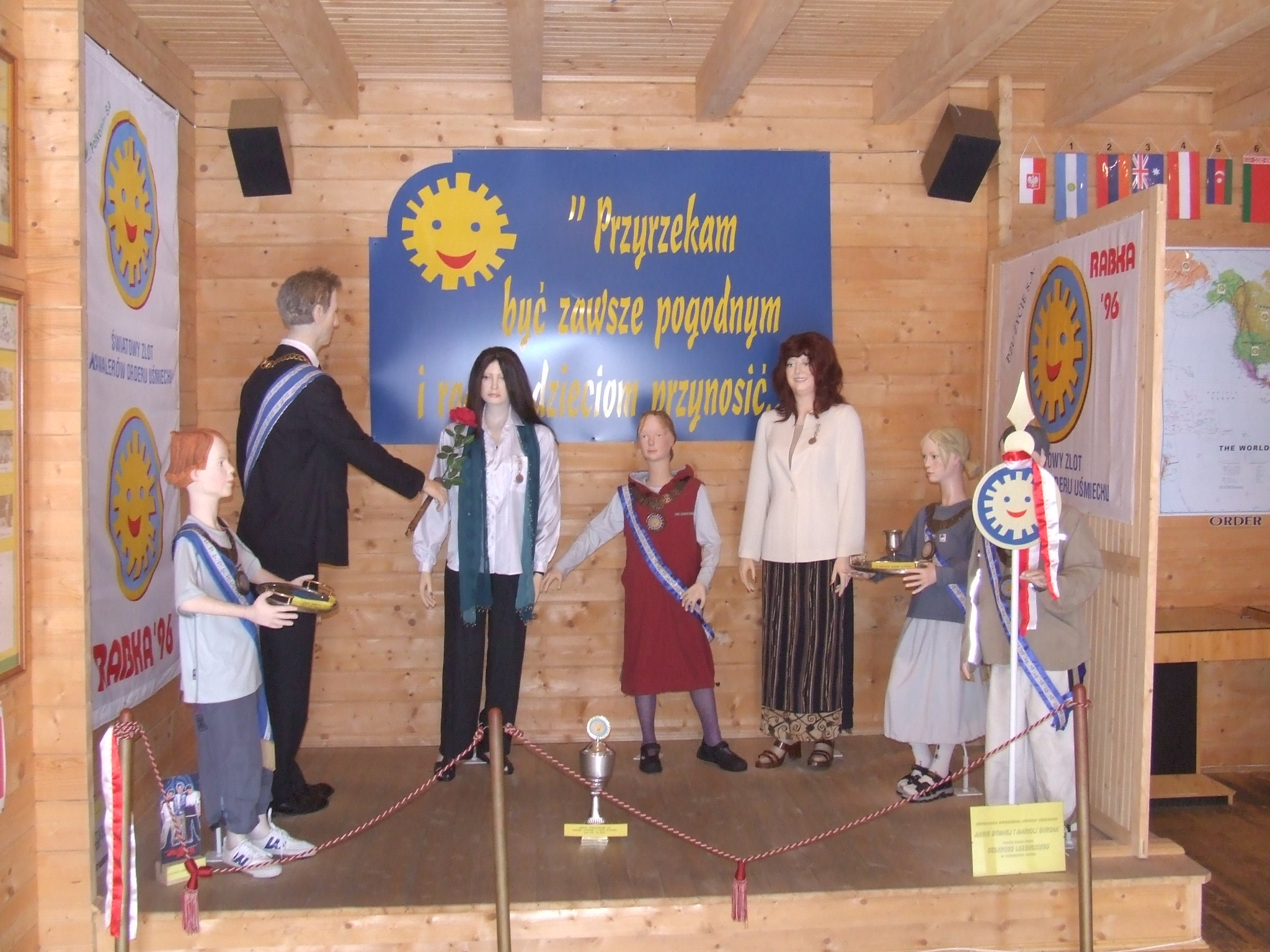 Museum of The Order of Smiling in Rabka-Zdroj